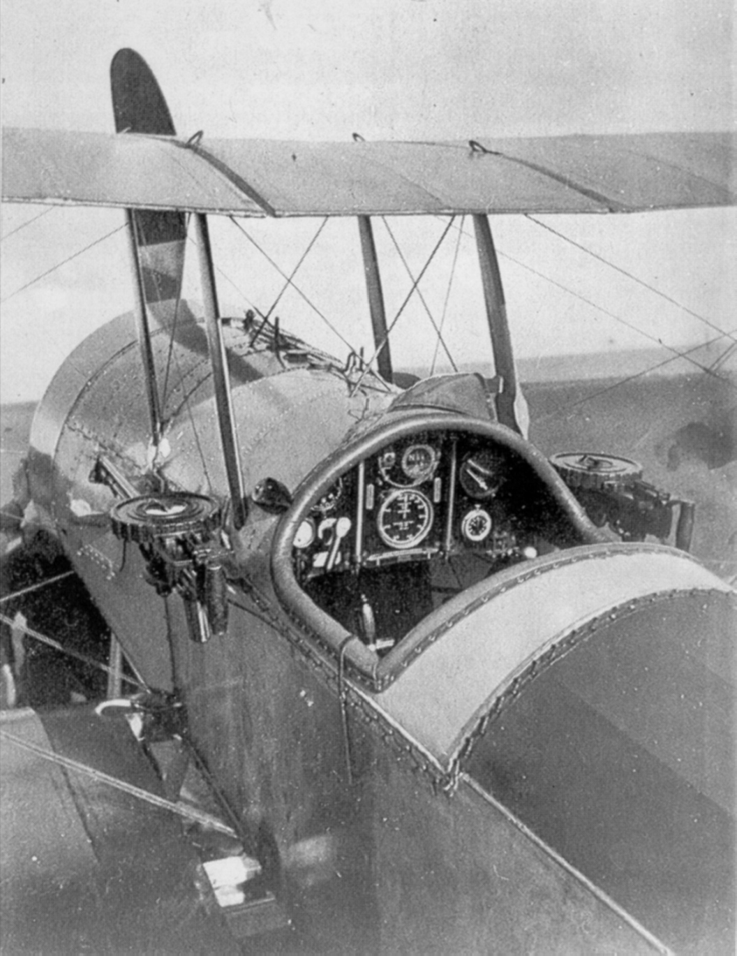 Detail view of Royal Naval Air Service Bristol Scout D, s/n 8992, with twin unsynchronized Lewis machine guns for armament.